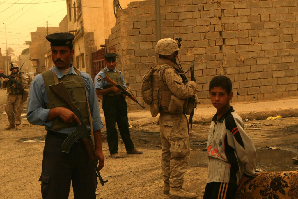 RAMADI, Iraq (June 10, 2008) – A group of Marines and Iraqi Policeman guard an area near the souk while on a foot patrol during a sandstorm June 9. The Marines and Iraqi police receive a positive response from the locals every time they patrol through the once-violent market. “The souk is usually pretty busy, a lot of hustle and bustle,” said Cpl. Chris Sarlo, an anti-tank missleman with 1st Battalion, 9th Marine Regiment, Regimental Combat Team 1. “For the most part the people are really friendly, if you say hello to them they’ll smile and say hello back. The area is 100 percent better than what it used to be.” (Official U.S. Marine Corps by Lance Cpl. Casey Jones) (RELEASED)